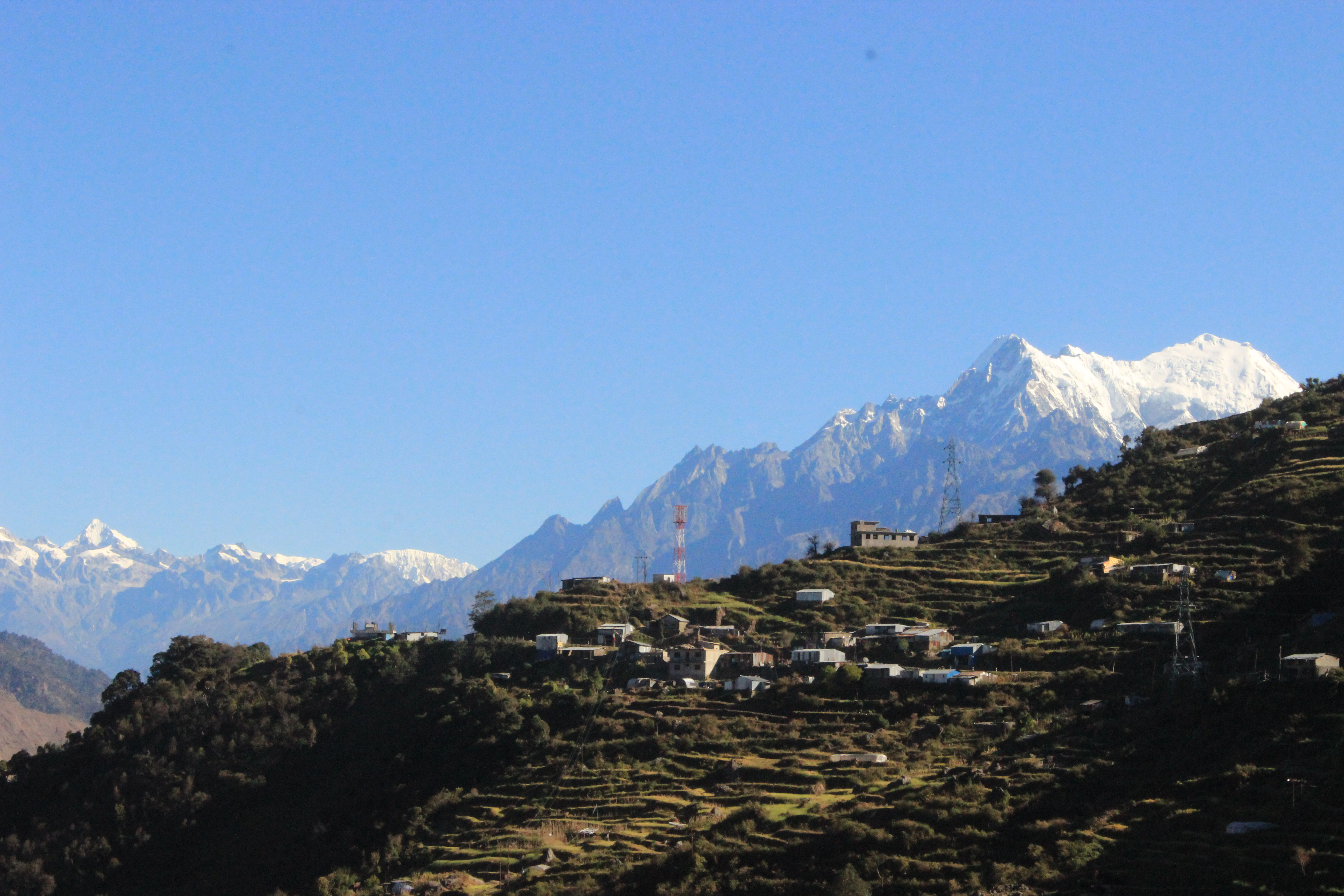 Langtang Himalaya Range is lies northern part of Nepal bordered with Tibet, China.